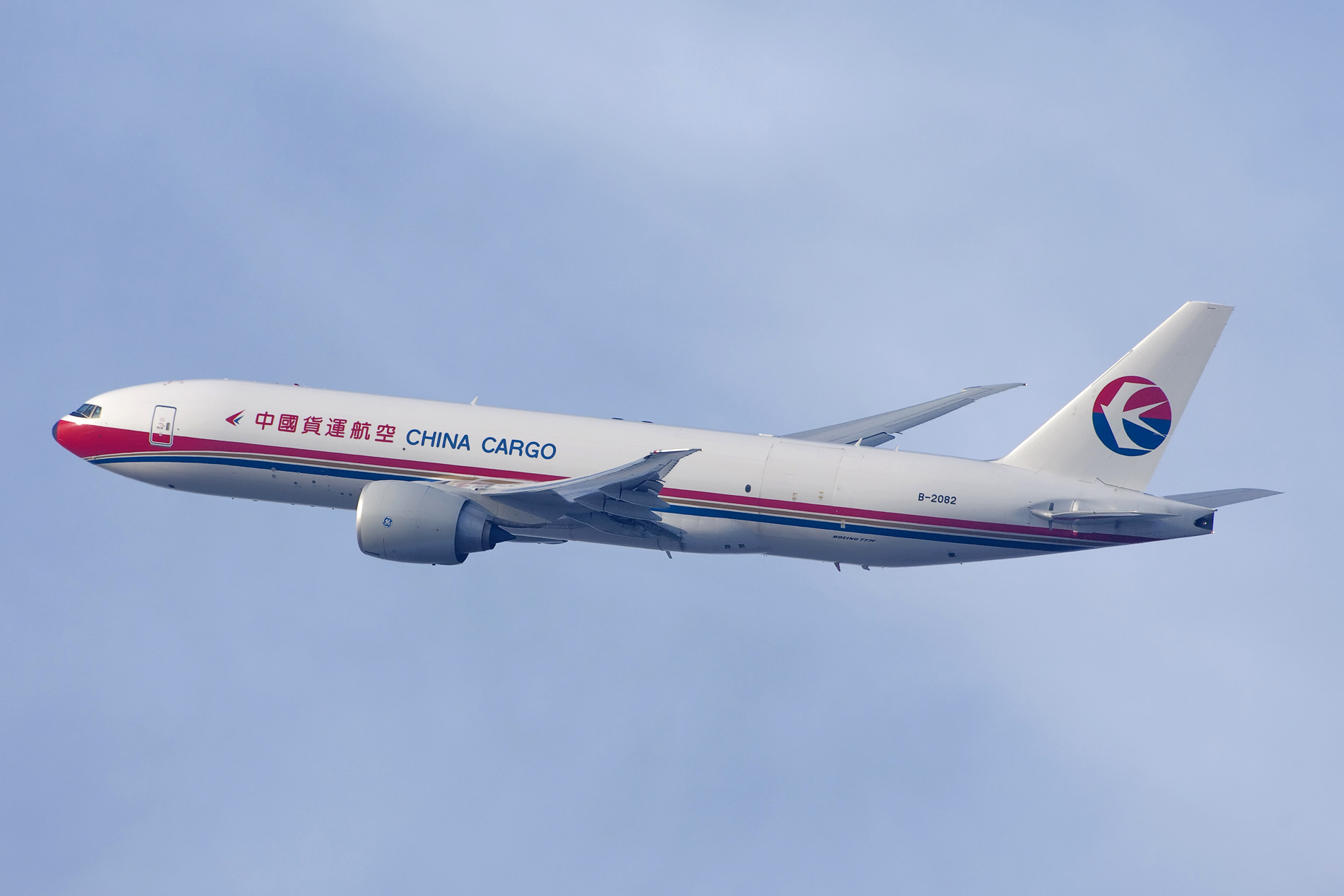 Schiphol